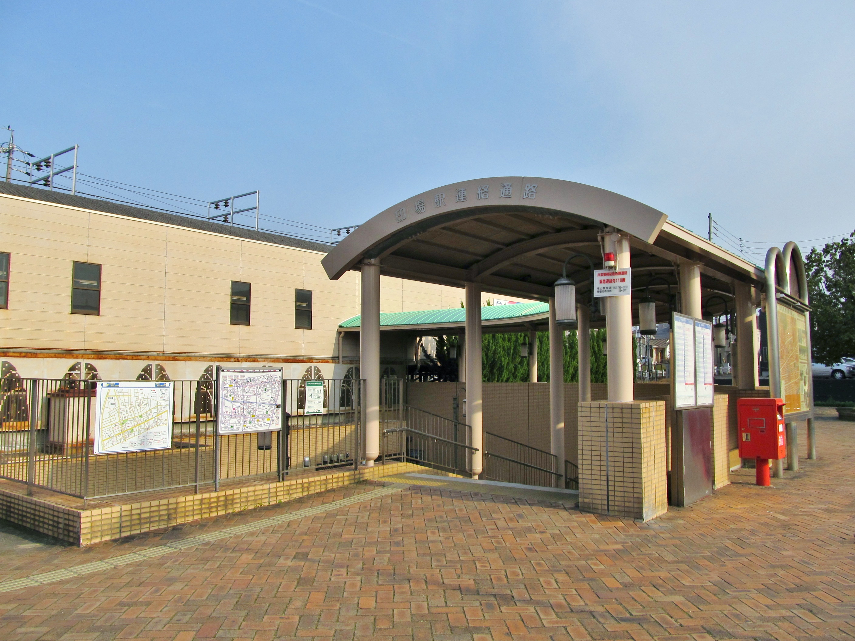 Nagoya Railroad Seto Line Imba Station South Gate